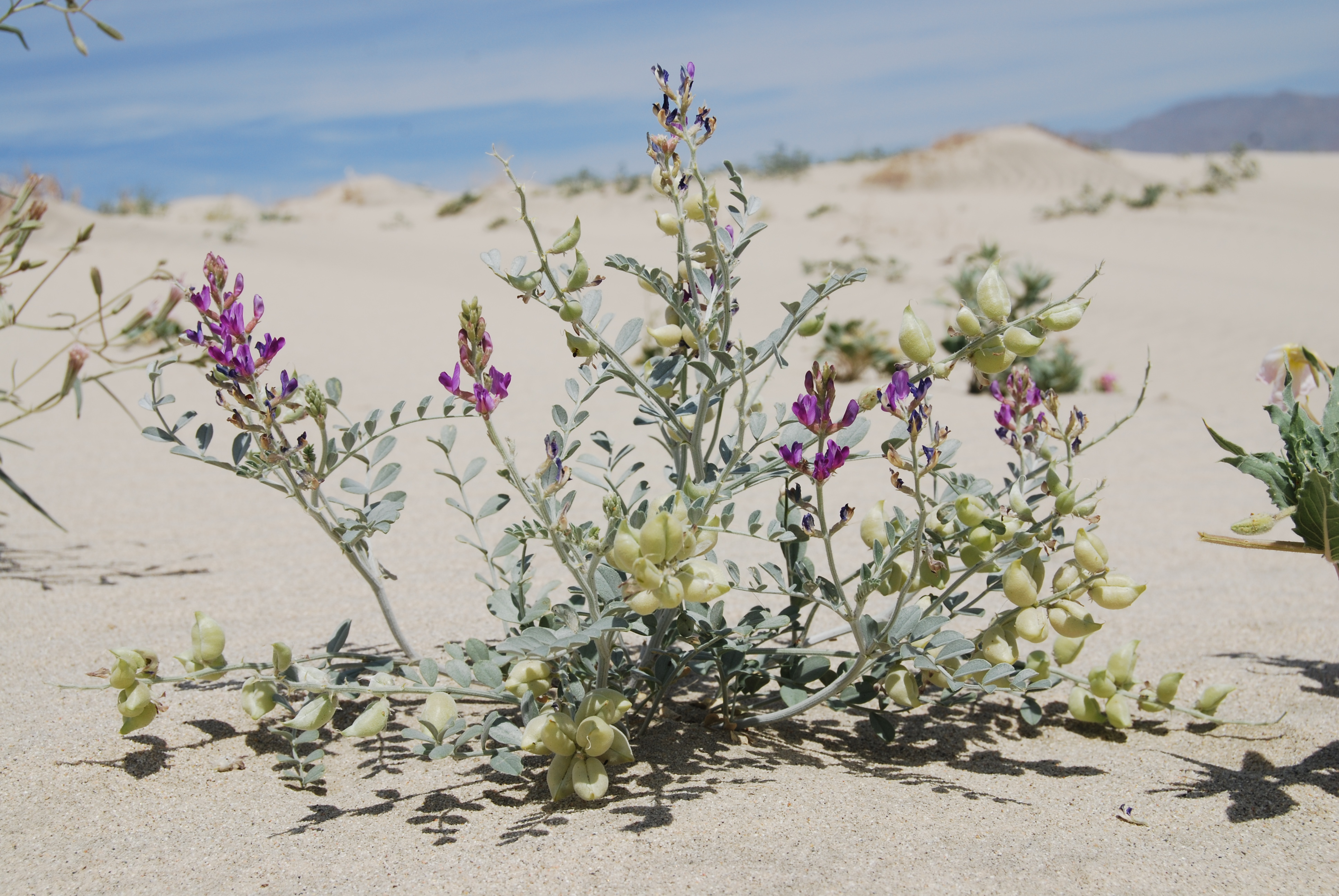 Astragalus lentiginosus var. coachellae — Coachella Valley milk-vetch, an endangered plant. The Coachella Valley is located at the northern extension of the Colorado Desert and is bordered by the Salton Sea to the south and the Little San Bernandino Mountains to the north. Sand that washes down drainages during flood events accumulates at the bottom of the drainages, then is dispersed throughout the Valley by the continual high winds that blow through the area. This ever-shifting sand forms a complex system of sand dunes that support a variety of native desert species. Originally, about 270 square miles of the Coachella Valley may have been covered with loose, wind blown sand. Disruption of the sand transport corridors and the impacts of development have eliminated the majority of the historic “blowsand habitat” in the Coachella Valley. The total remaining “blowsand” habitat is about 50 square miles in size and occurs in relatively fragmented patches from San Gorgonio Pass southeast through the Valley to Indio, California. Why is the sand dune ecosystem important? The sand dune ecosystem of the Coachella Valley supports a variety of animals and plants specially adapted to living in the harsh desert environment. These distinct and sometimes rare species have evolved because the blowsand deposits of the Valley are relatively isolated from other areas by the surrounding mountain ranges. The threatened Coachella Valley fringe-toed lizard, the endangered Coachella Valley milk vetch, Coachella Valley round-tailed ground squirrel, Coachella Valley giant sand treader cricket, and the Coachella Valley Jerusalem cricket are among the variety of species that occur in this specialized “blowsand” habitat. (USFWS)